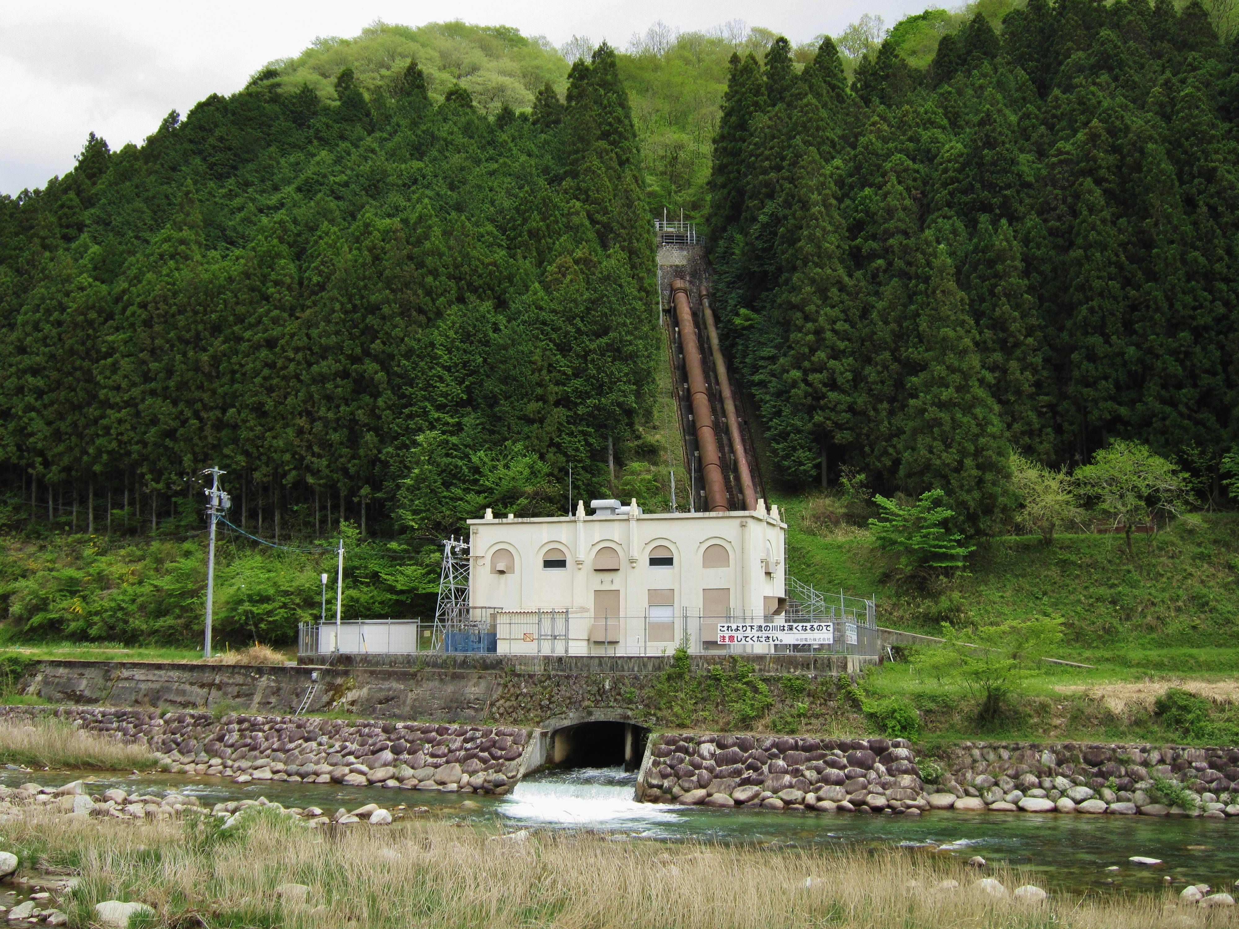 Shima power station.